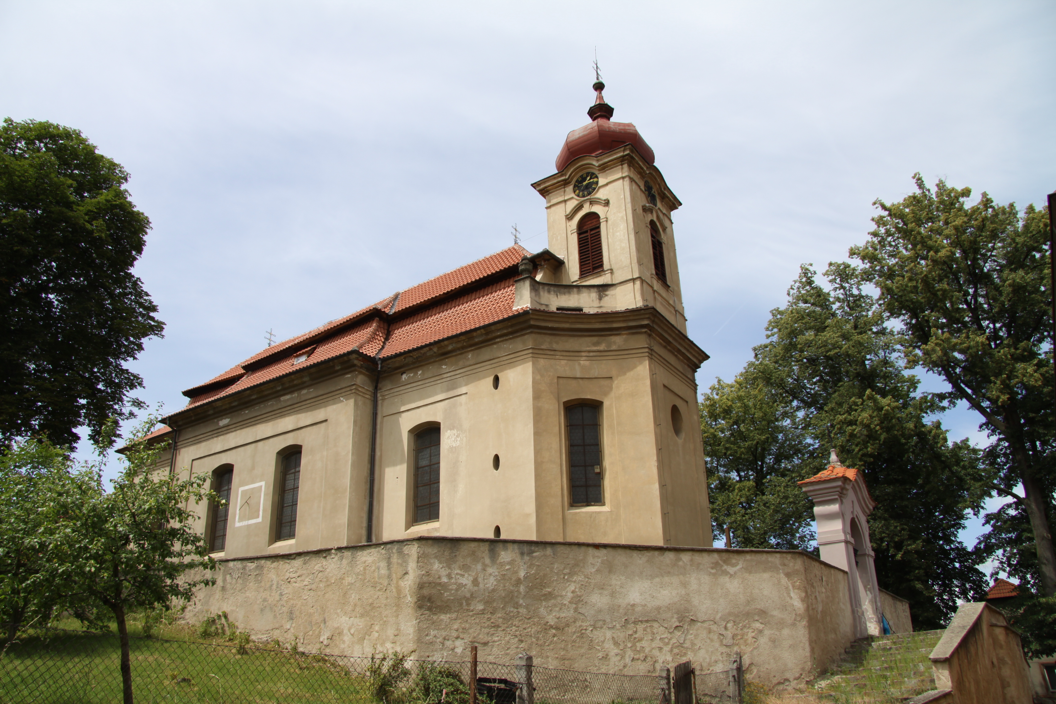 Market town and municipality Jince in Příbram District, Czech Republic.Church of Sant Mikuláš.